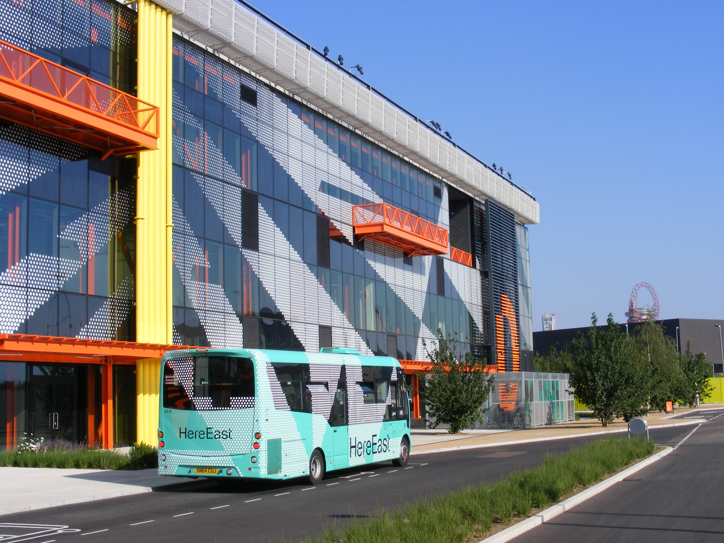 Here East busn9 sn64 cuj sn64cuj of Go Ahead ws38 ws 38